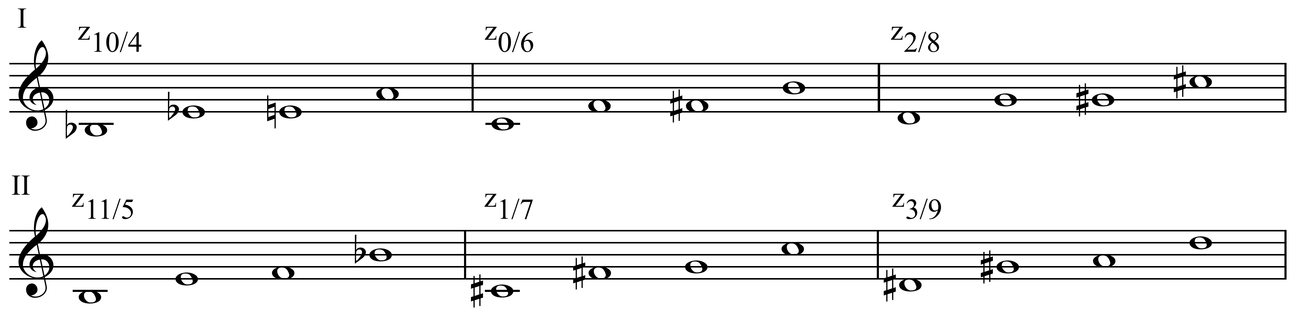 Two forms of Trope I, each generated from all even or odd T numbered forms of cell z (one of the two non-identical versions of this trope). There are two T numbers (T=transposition, or level of the cell) for each form of cell z, since it's pitch-classes are invariant under tritone transposition: z2 = 2 7 8 1 z8 = 8 1 2 7